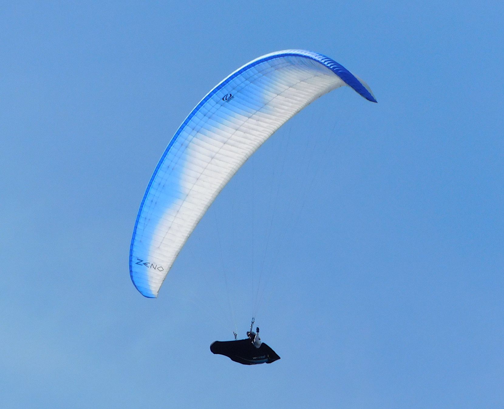 An Ozone Xeno paraglider.